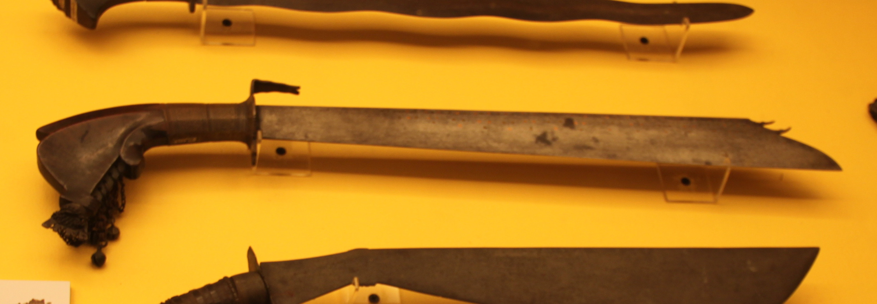 Lumad kampilan (cropped) Bangsamoro and Lumad Cultures Gallery, Museum of the Filipino People, Rizal Park, Manila, Philippines. Complete indexed photo collection at .